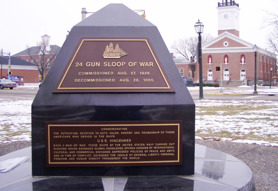 Monument to ships named USS Vincennes